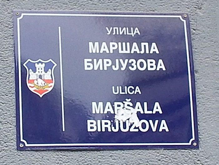 Marshal Biriyzov Street. Belggrade. Serbia